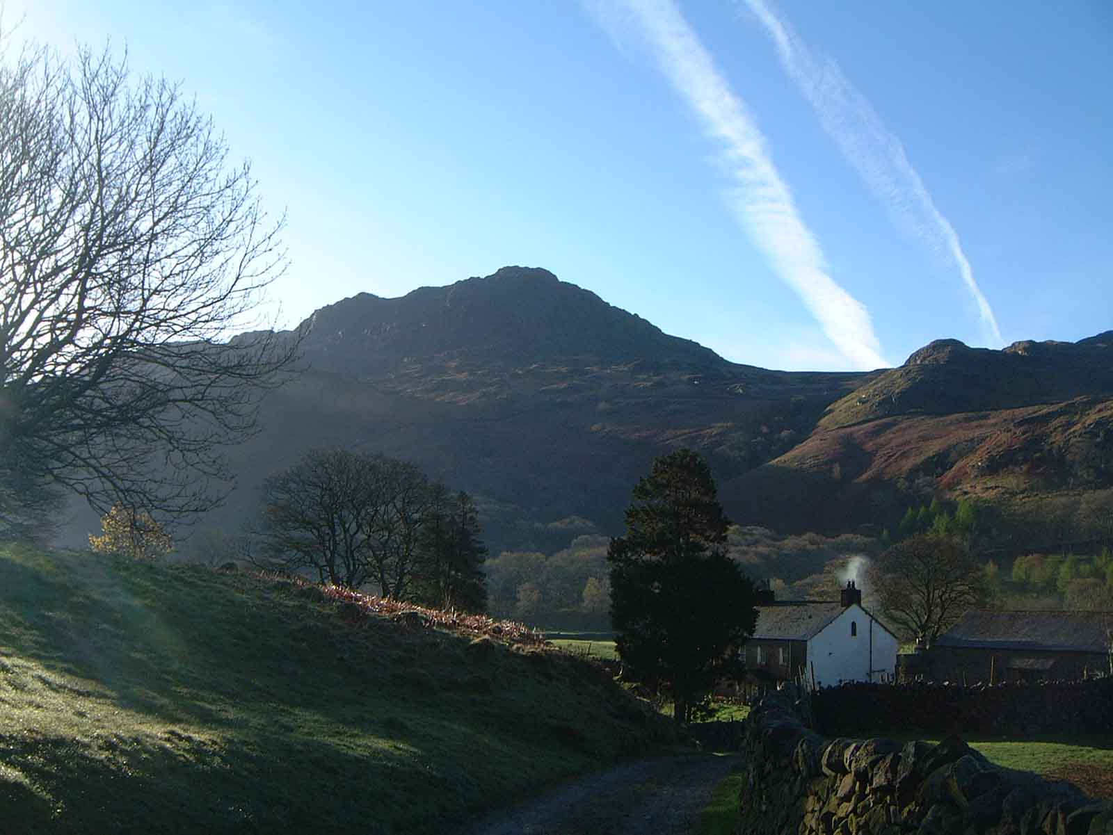 Personal photograph taken by Mick Knapton on 19th April 2005